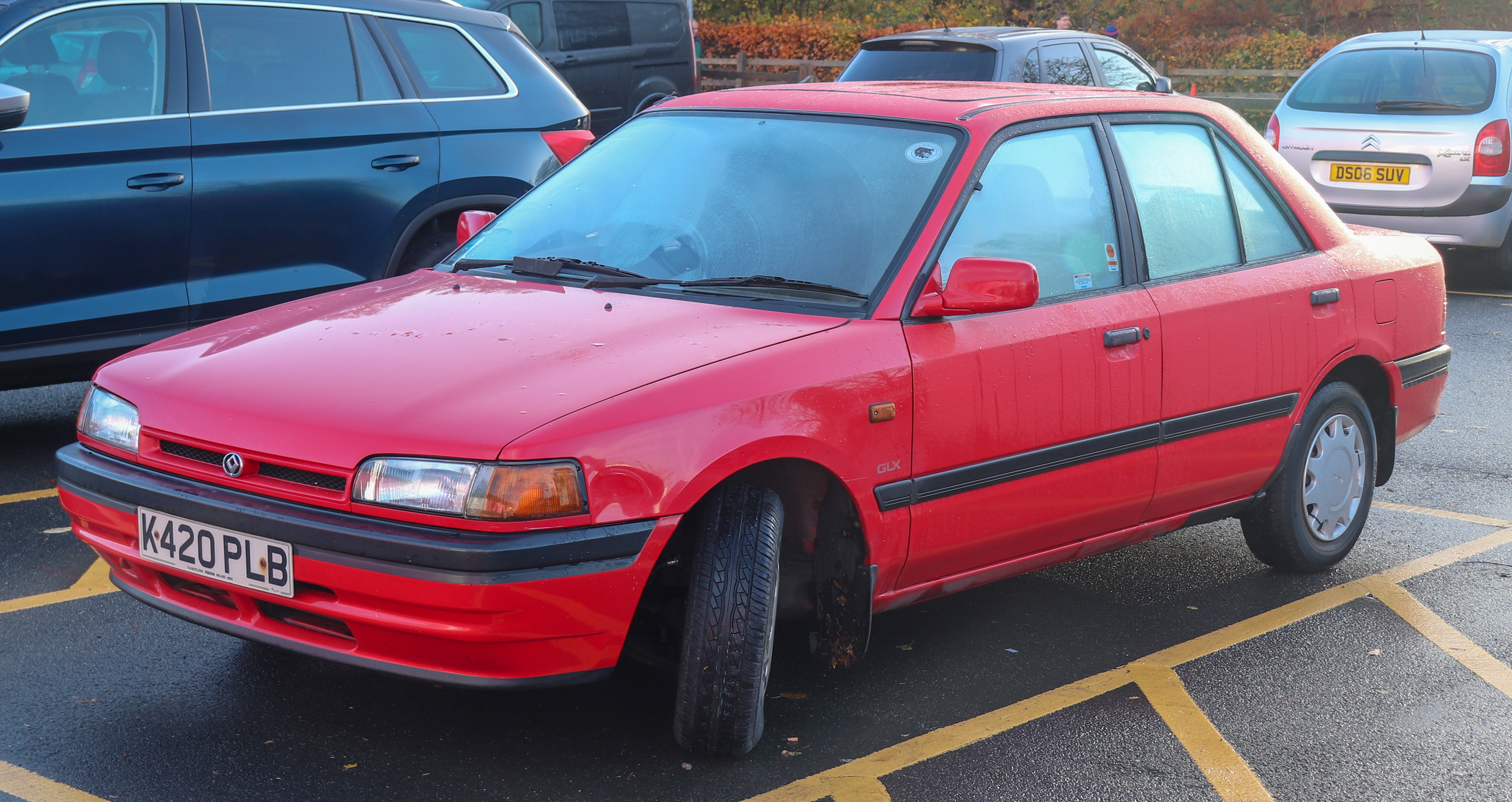 1992 Mazda 323 GLXi ABS Automatic 1.6 Front Taken at the NEC Classic Motor Show 2018